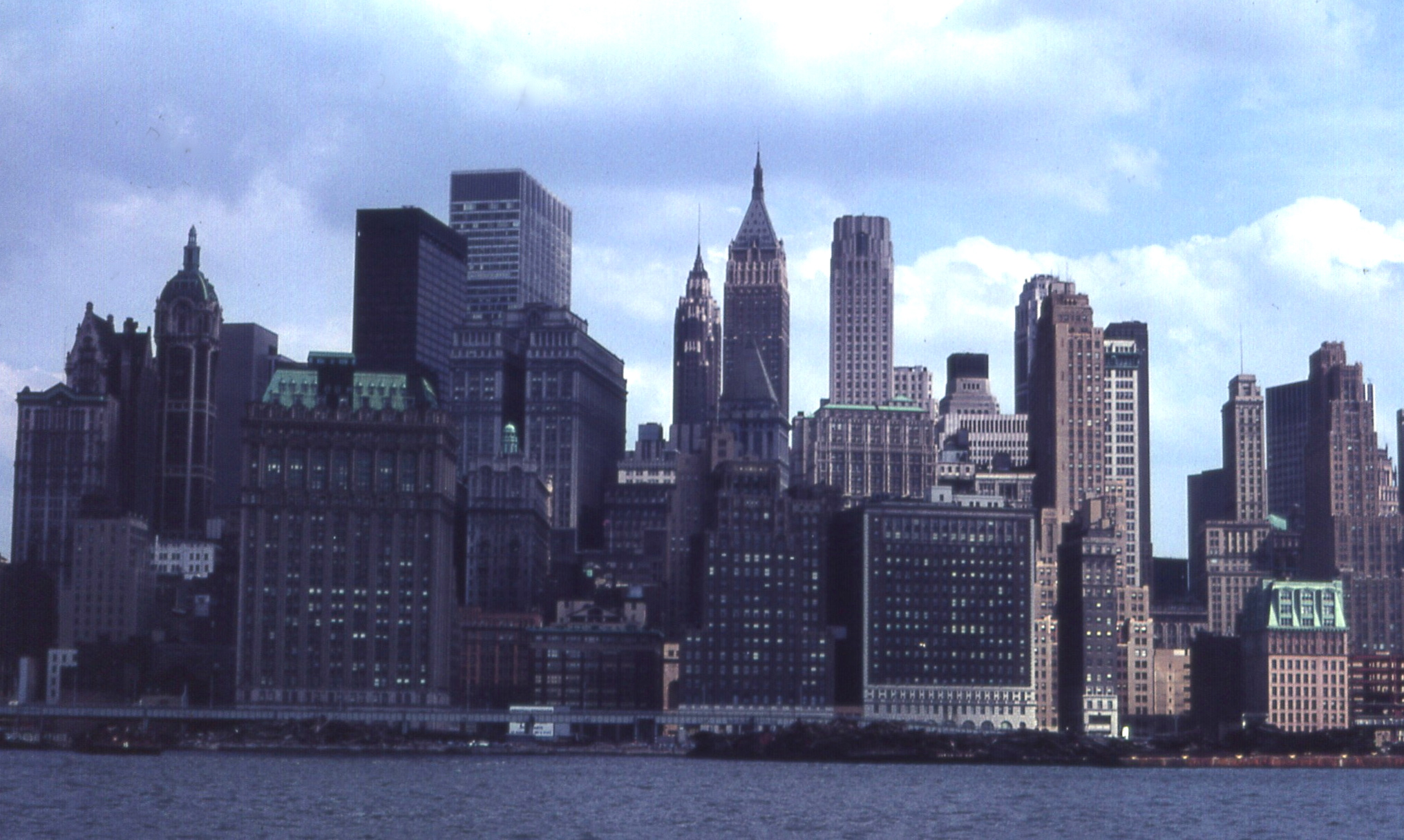 Photo taken in August 28, 1967